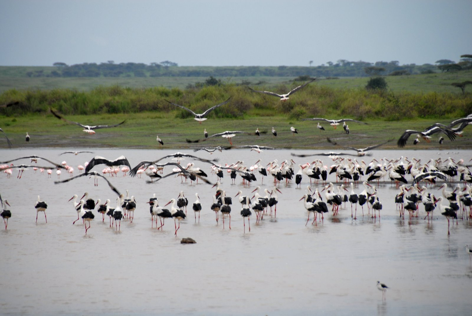 A portion of a large flock of White Storks at Serengeti National Park, Tanzania. They appear to have been disturbed, because most of the birds in the foreground are moving away from the camera.